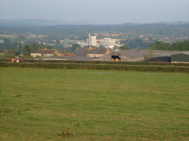 Higher Stockham Farm. A farm on the Fosse Way. Seen across a field from the A358. In the background, nearly a mile beyond, is the Dairy Crest creamery at Chard Junction.